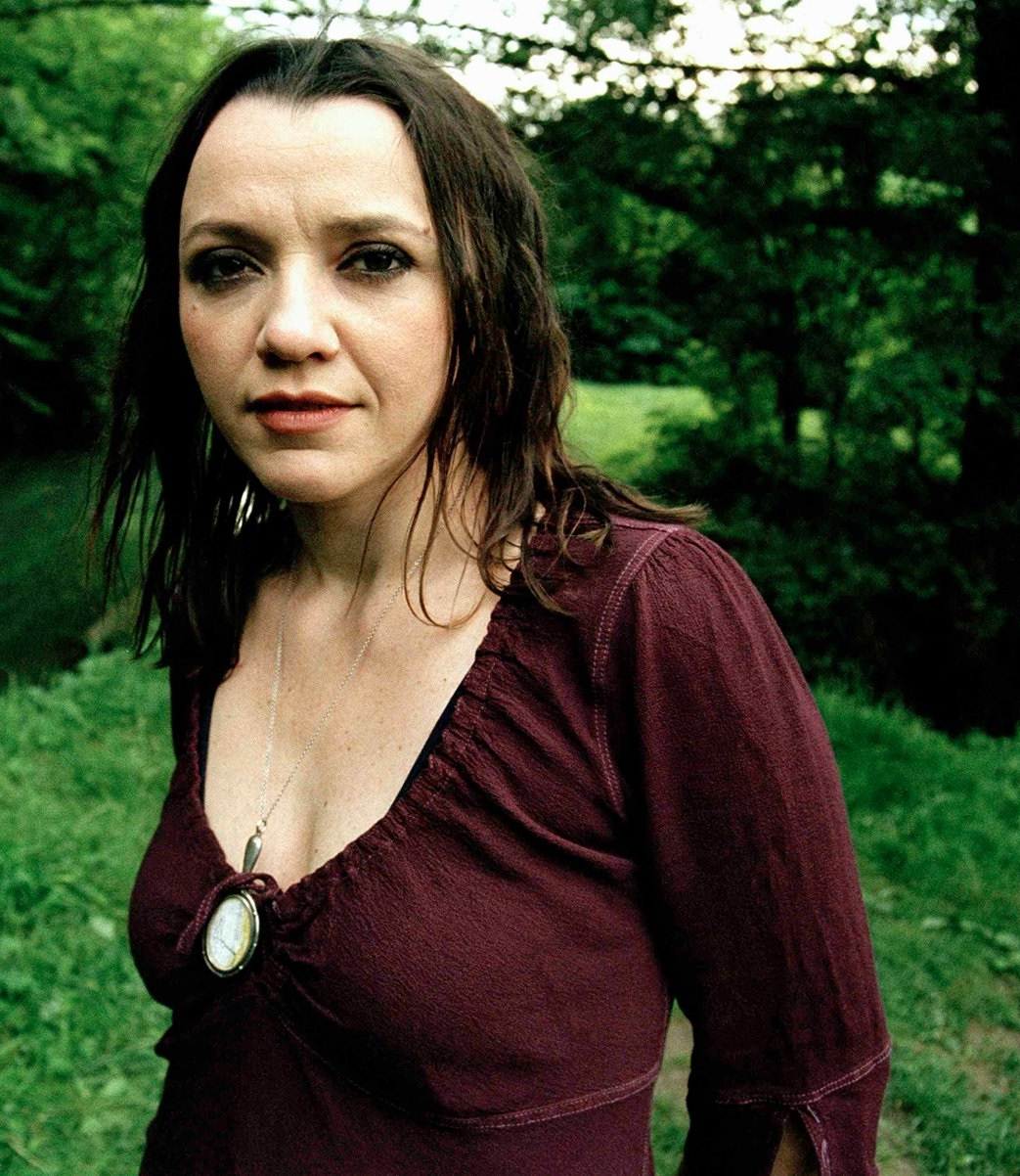 Pina Kollars in 2014